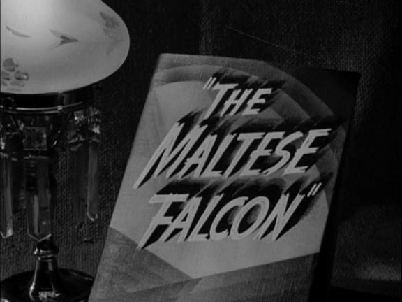 Main title frame from the 1941 public domain trailer for the Warner Bros. film The Maltese Falcon.